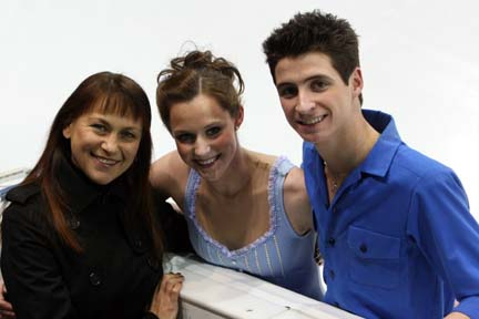 Tessa VIRTUE and Scott MOIR at the boards with their coach Marina Zoueva at the 2007-2008 Grand Prix Final